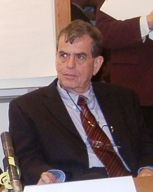 The image of Nobel Laureate in Chemistry, Aaron Ciehanover.